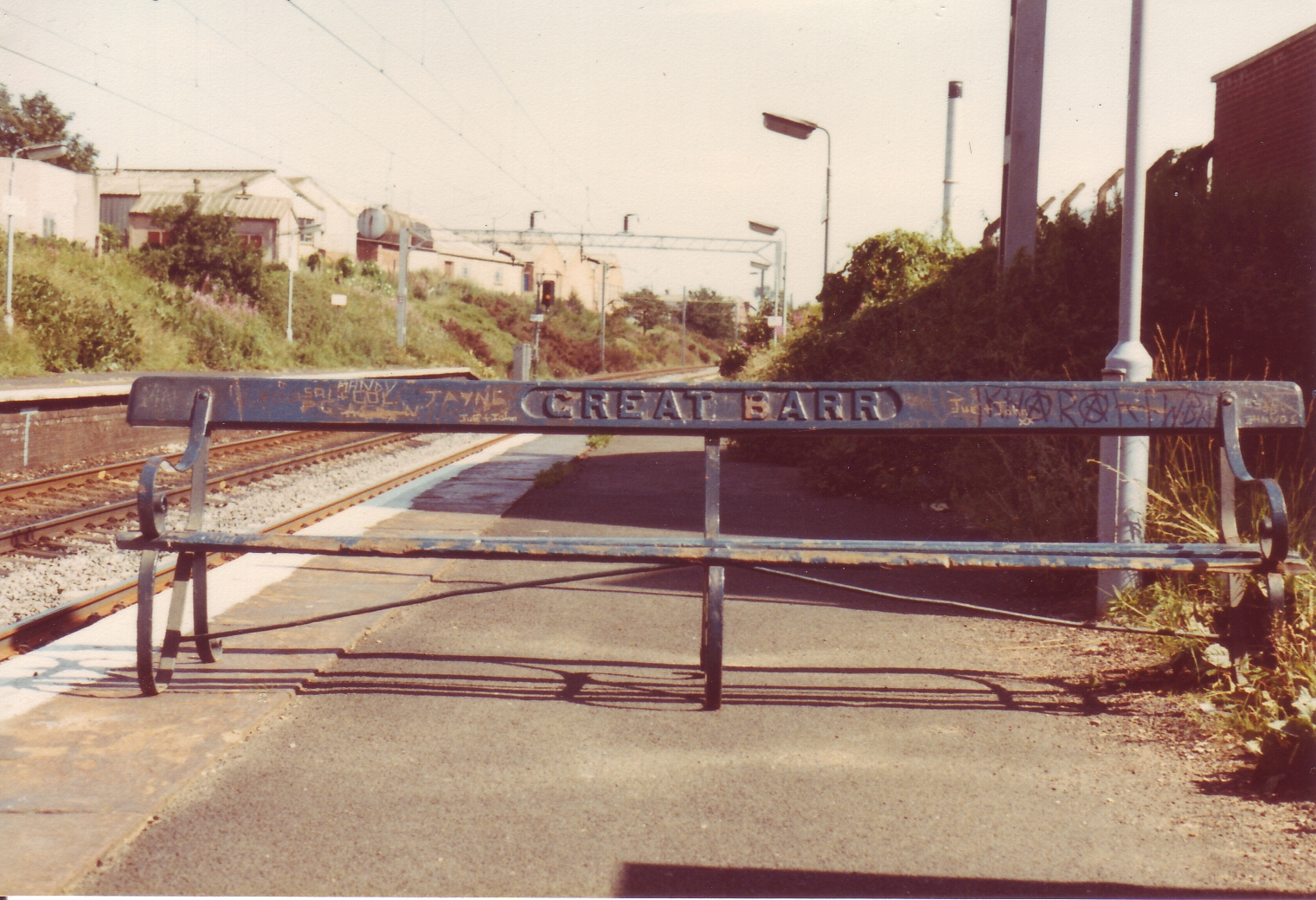 Bench at Hamstead railway station, Birmingham, England, showing the former station name of "Great Barr". The bench had a wrought-iron frame with wooden boards. The lettering was cast iron, screwed in place. The bench was removed from a waiting shelter for the purposes of taking the picture.